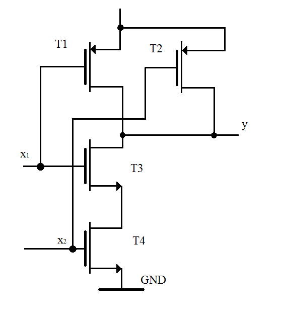 JA-EI loogikaelement